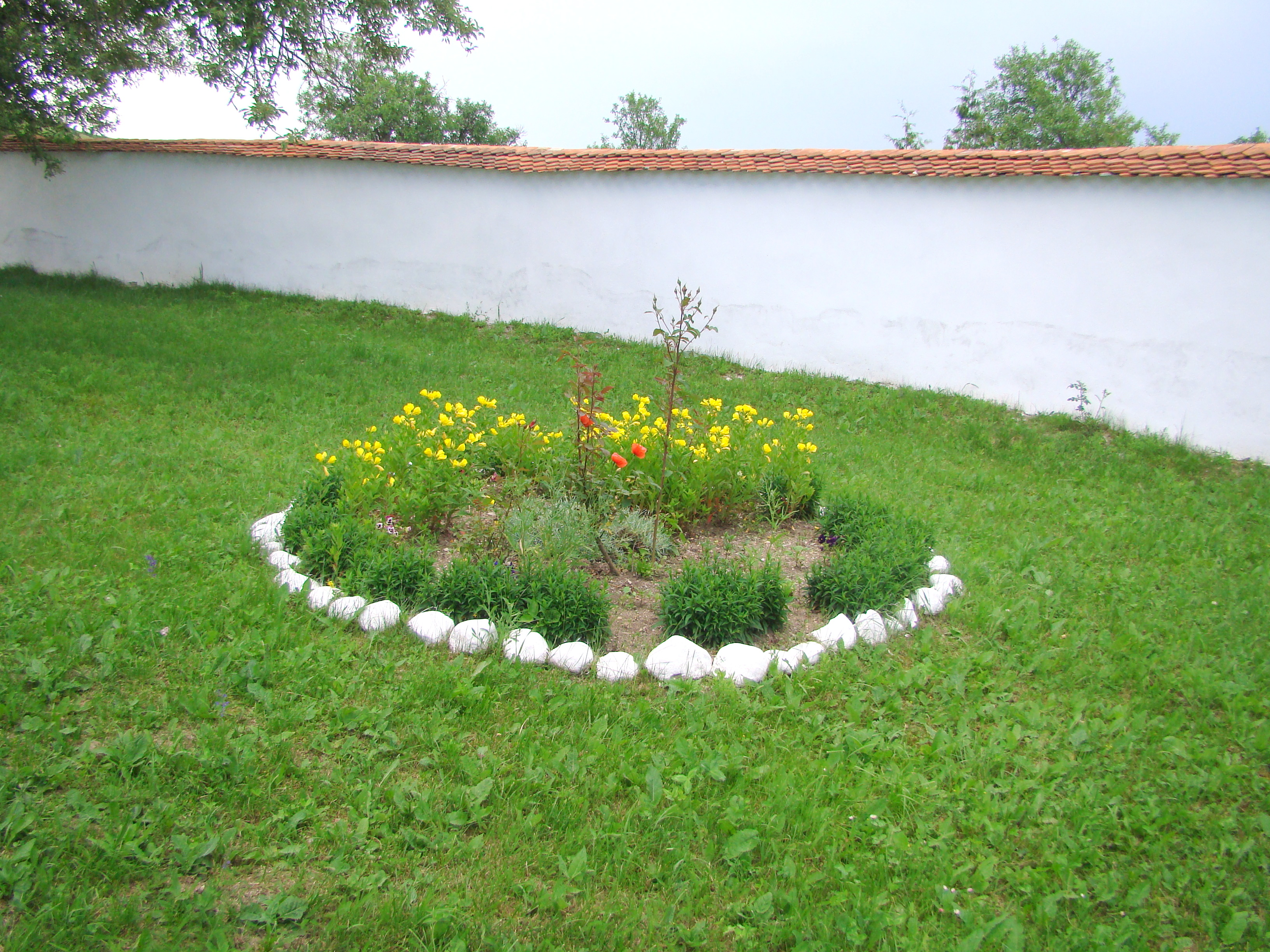 Unitarian church in Satu Nou, Harghita County, Romania